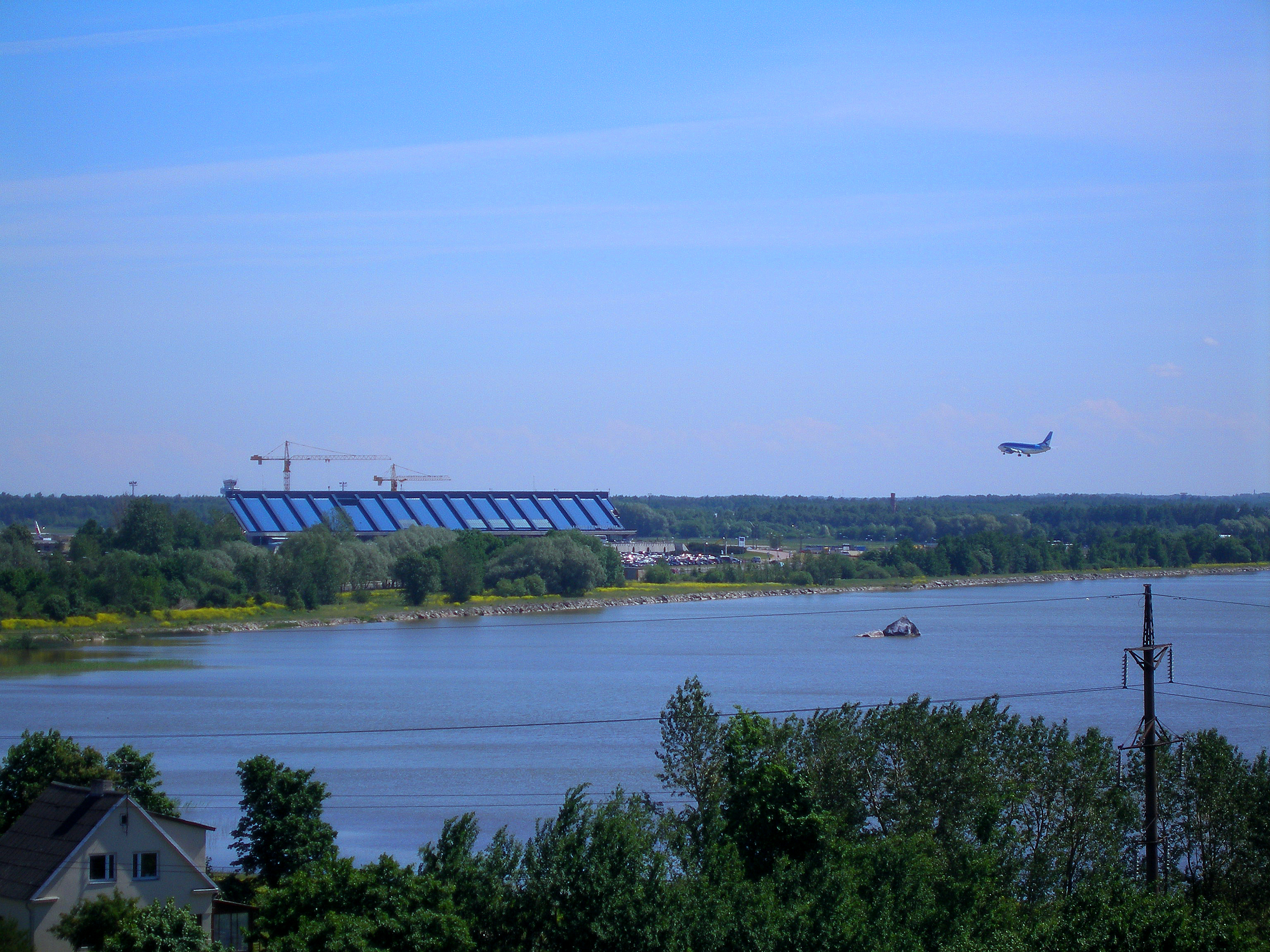 An Estonian Air Boeing 737 landing over Lake Ülemiste at Tallinn Airport.